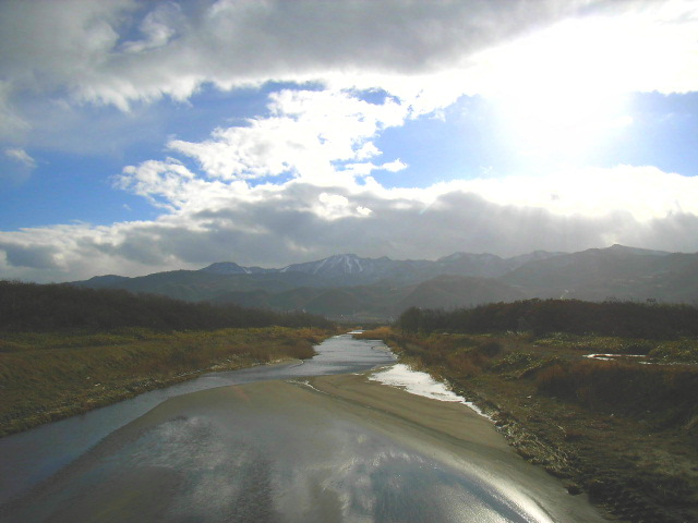 Hoshioki River and Mount Teine. Zenibako 3 chōme, Otaru, Hokkaidō prefecture, Japan. Southward from Bōyō Bridge.